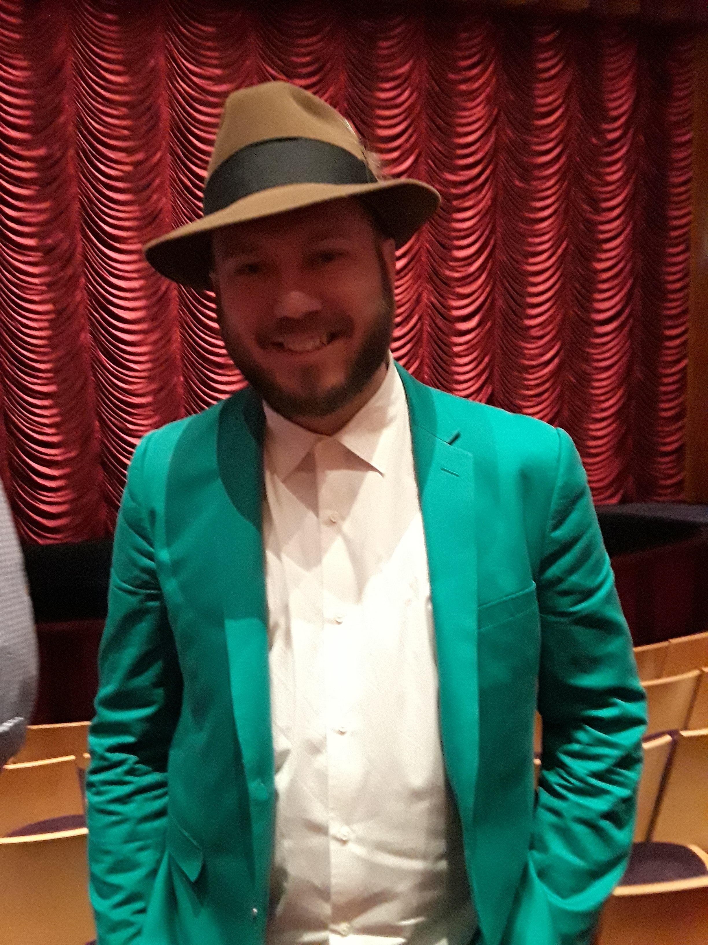 Portrait of Royce Vavrek